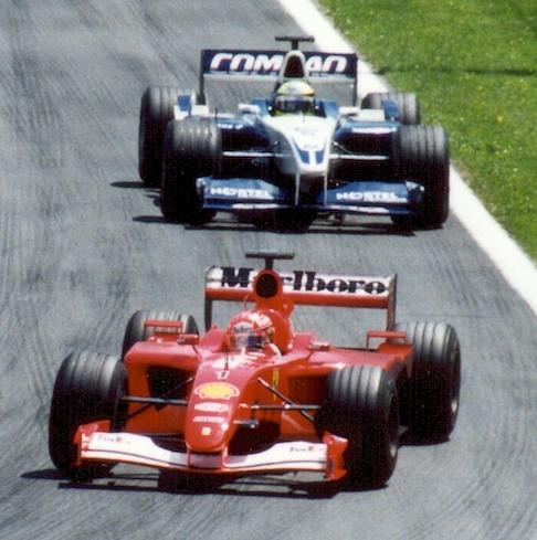 Michael Schumacher (Ferrari) leads brother Ralf (Williams) at the 2001 Canadian Grand Prix.